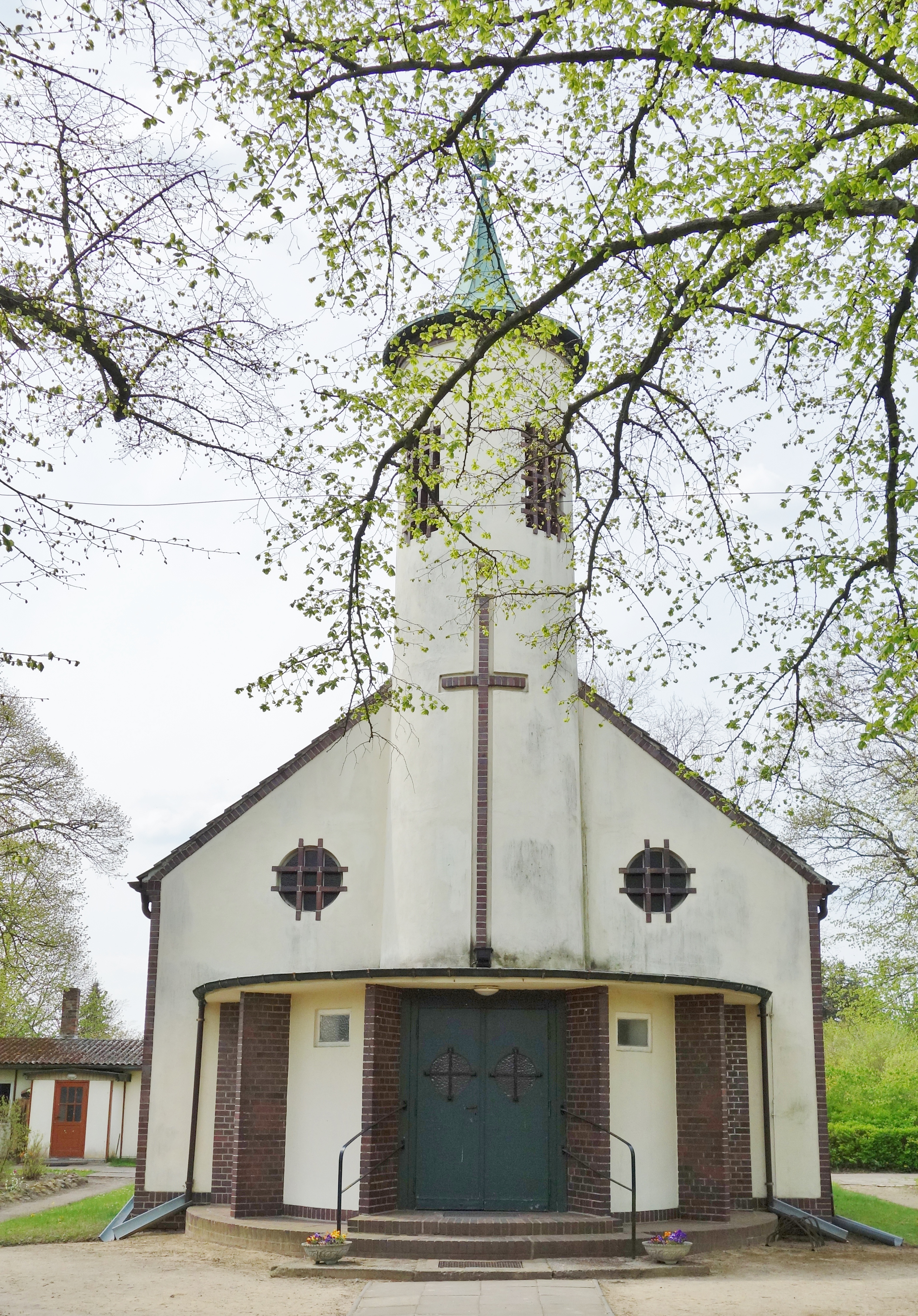 North-eastern view of church in Paulinenaue, Paulinenaue municipality, Havelland district, Brandenburg state, Germany.